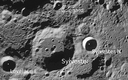 Derivative work (cut of region around Yerkes crater) from File:Hermite - LROC - WAC.JPG